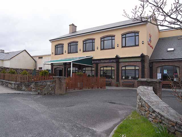 Erris House Hotel, Geesala